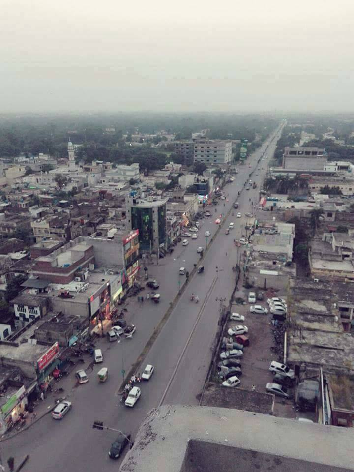 Aziz Bhatti Road